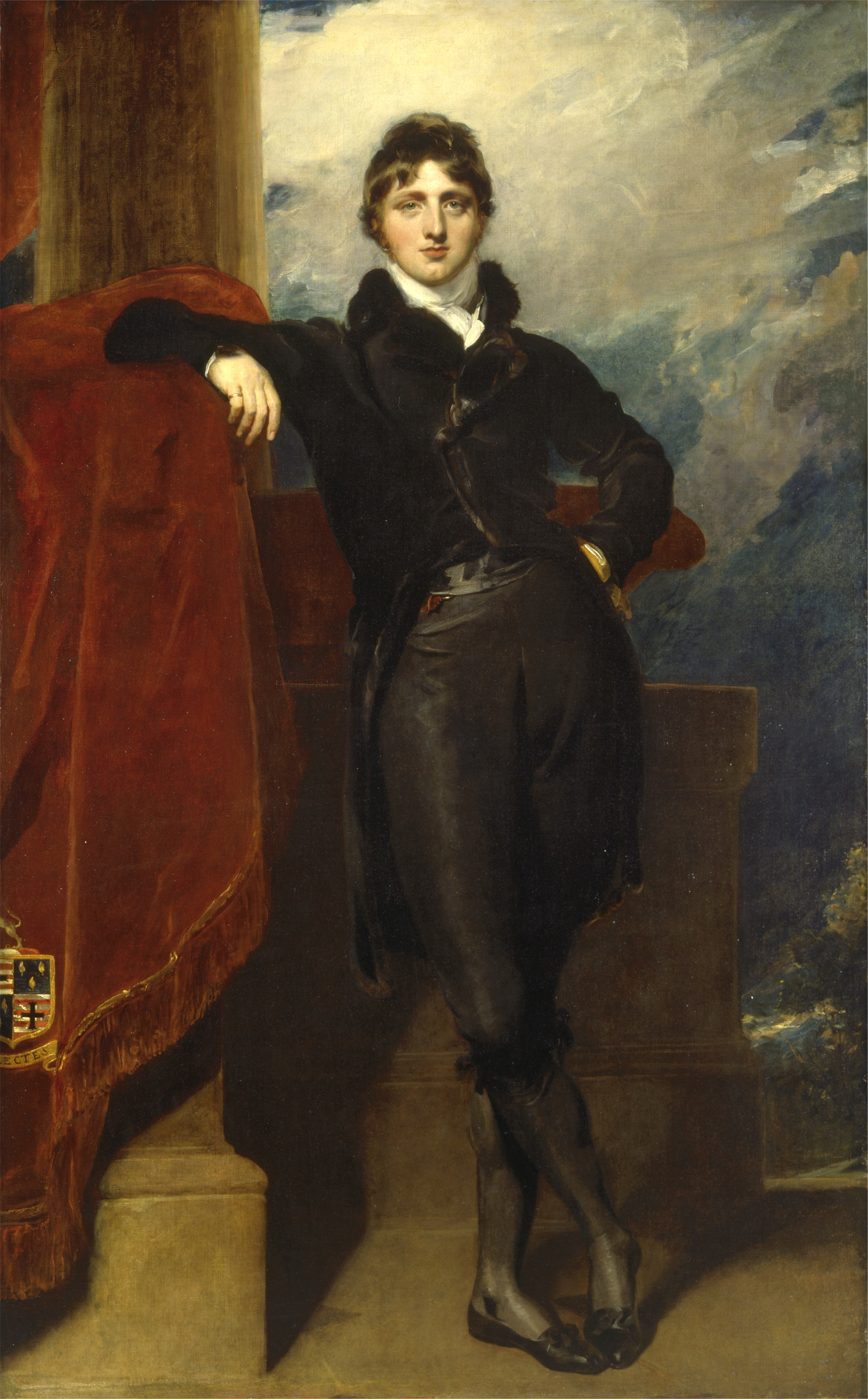 A portrait of Lord Granville Leveson-Gower (later 1st Earl Granville) at the time of his mission to Saint Petersburg.